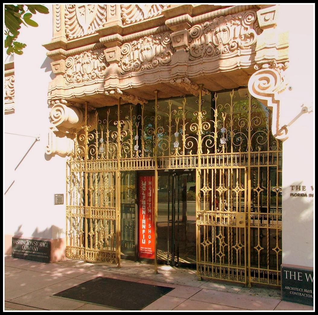 Entry to The Wolfsonian-FIU from Washington Avenue, Miami Beach, Florida, USA.